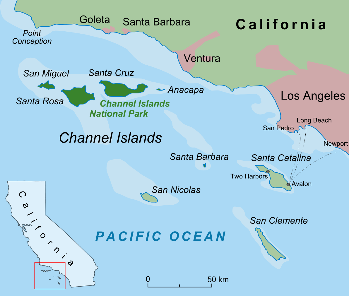 Map of the Channel Islands archipelago — in Southern California. The northern islands (dark green) are protected within Channel Islands National Park. The marine ecosystem around the northern islands and Santa Barbara Island is protected within the Channel Islands National Marine Sanctuary. Depending on location — islands are within either Los Angeles County, Ventura County, or Santa Barbara County.